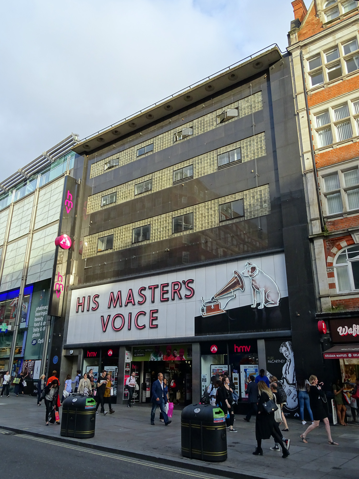 "363 Oxford Street July 1921 - April 2000 HMV Site of the original HMV store Opened by Sir Edward Elgar in July 1921, the HMV store shaped the way people bought music for nearly a century In 1962 it played a significant role in the career of The Beatles. A 78RPM demo disc of the band was cut in the store's recording studio. This led to the Beatles' long-term recording contract with EMI Plaque unveiled by Sir George Martin CBE 26 April 2000 The world's most famous music store" - 363 Oxford Street, Mayfair, London W1C 2JN City of Westminster